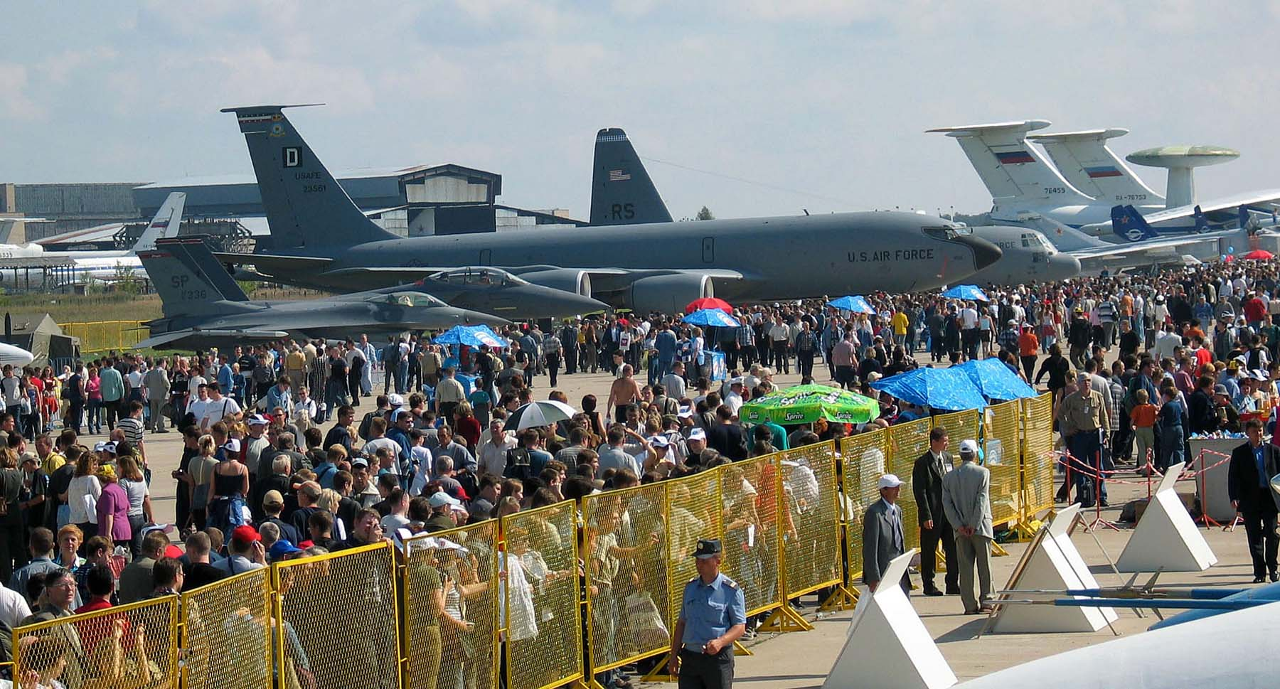 Crowds surround U.S. aircraft on display at the 6th Moscow Aviation and Space Show Aug. 19-24 at Ramenskoye Airfield just south of Moscow. U.S. aircraft, including the F-16CJ, F-15E, KC-135 and C-130, sat among Russian cargo and fighter aircraft. Because of its wing span, the B-52 was on display at the far end of the display area.